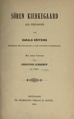 Book title to Harald Høffding's Søren Kierkegaard as Philosopher, published in 1896.